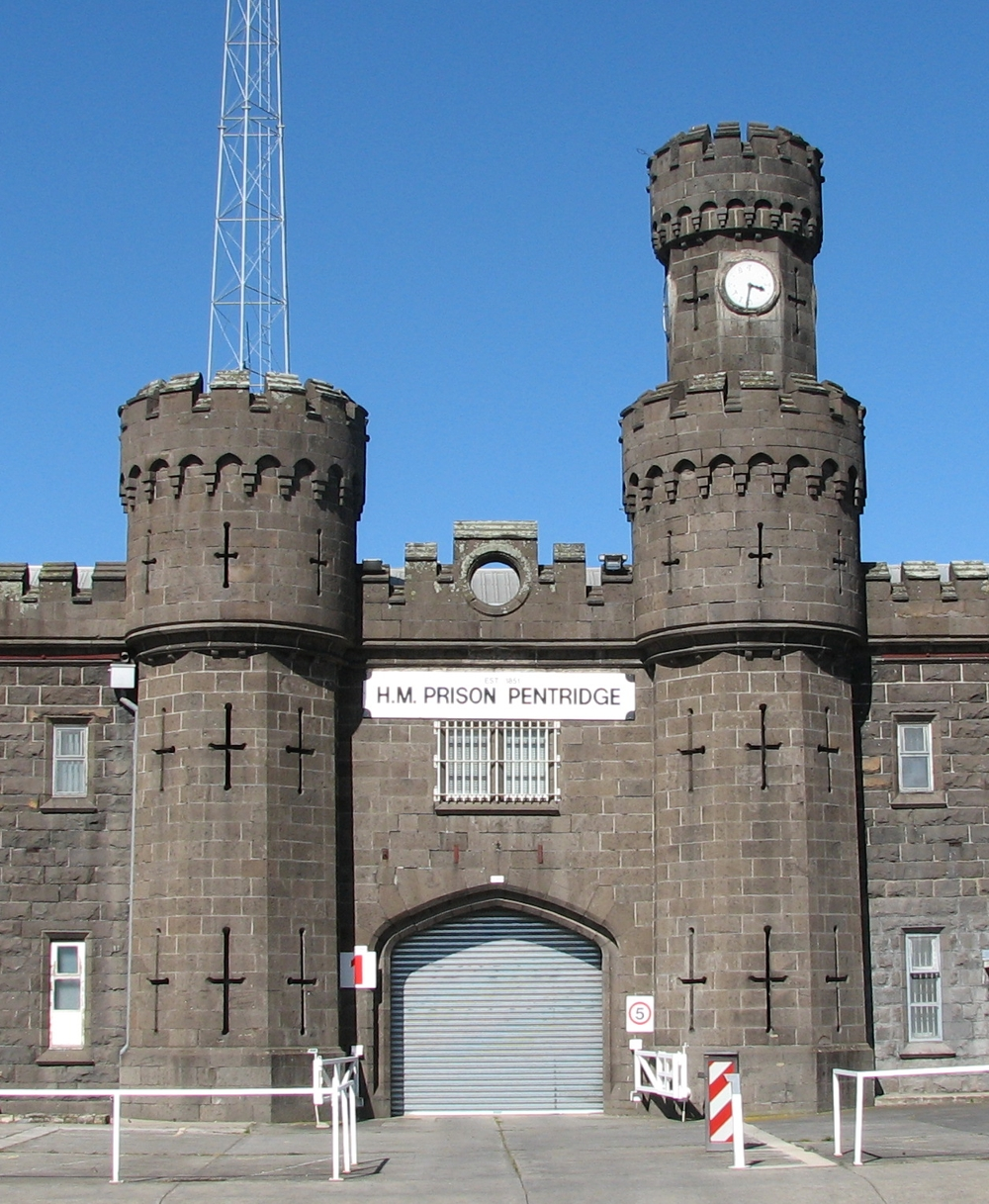 Main entrance of former H.M.Prison Pentridge in Melbourne.